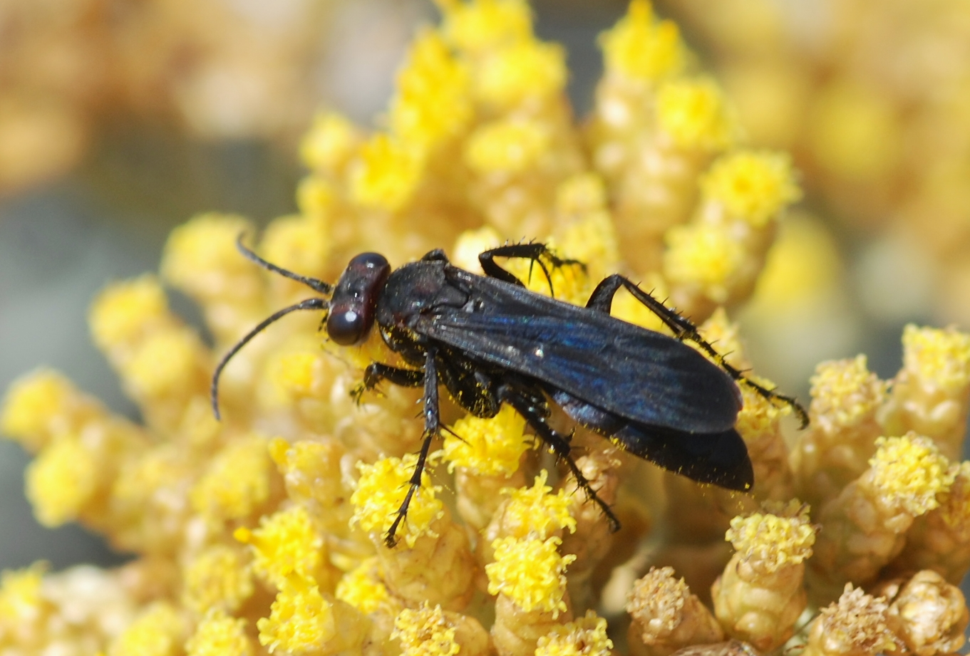 Spider-hunting wasp of the Pompilidae family (cf. Agenioideus sp.)